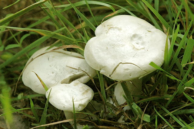 Clitocybe dealbata from Commanster, Belgium. If you think this is a different taxon, please contact James Lindsey.